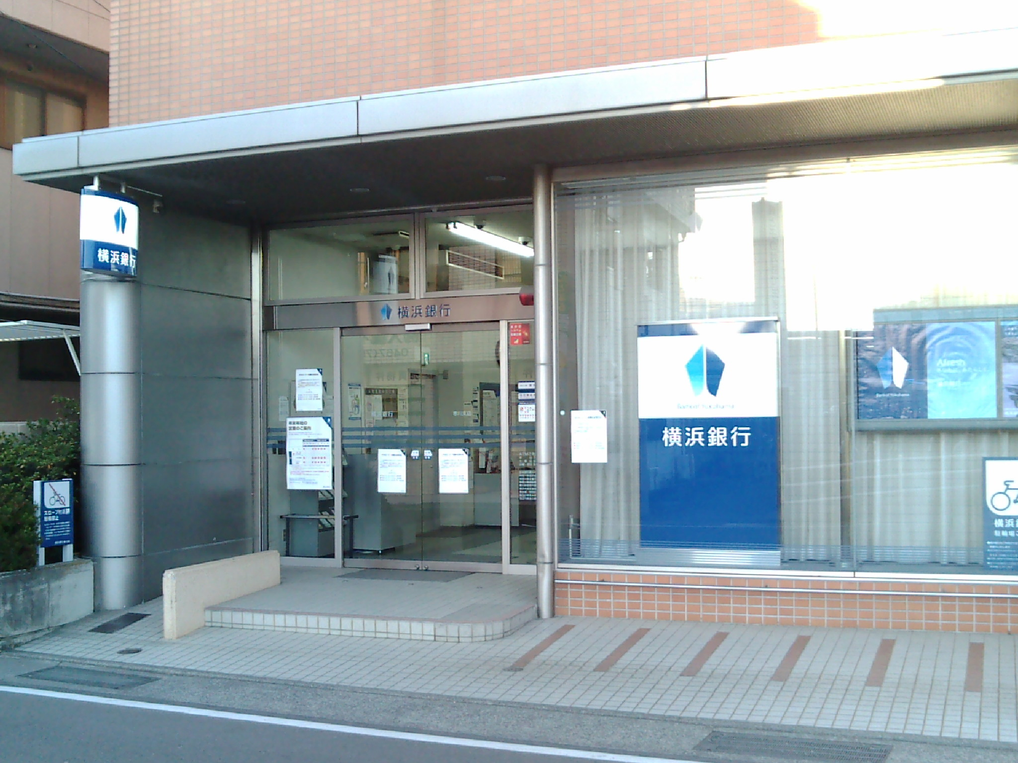 Bank Of Yokohama,Samukawa branch